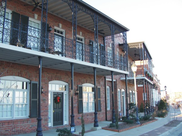 New Orleans style townhomes in Southside, Greensboro